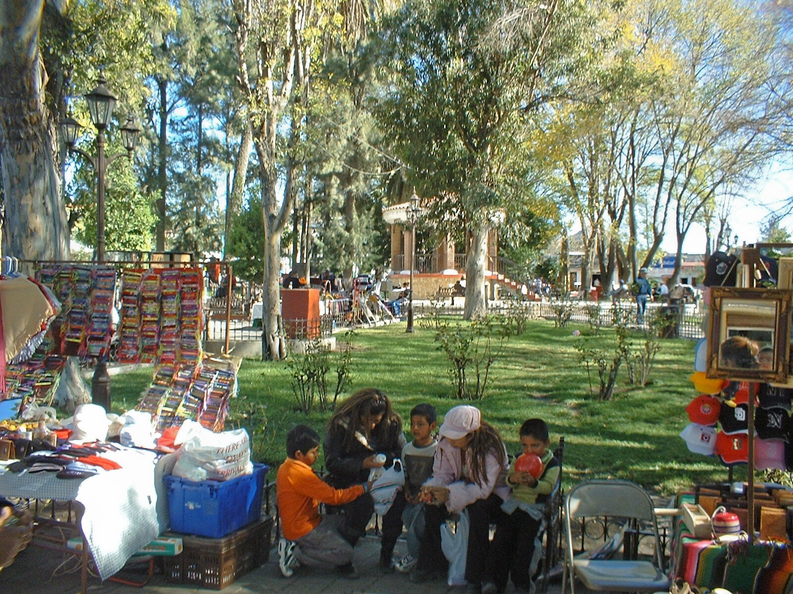 Photograph of the main plaza in downtown Tecate, Mexico, on a Saturday morning